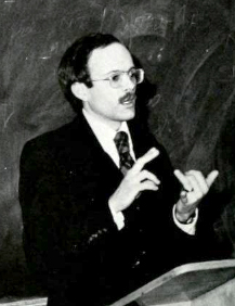 Kent P. Jackson in the 1982 Banyan